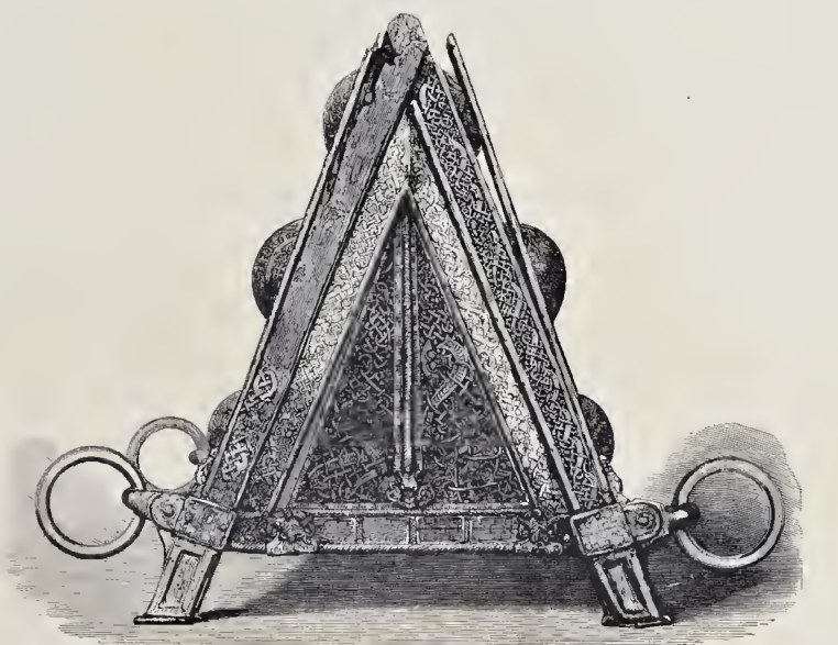 Shrine of Saint Manchan, end view. Illustration from the Art Journal, 1876